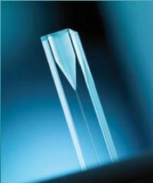 Large Cone for hydrodynamic focussing and acceleration of flow (sheath-fluid with sample) Polished Chamfers in measuring area to reduce stray light